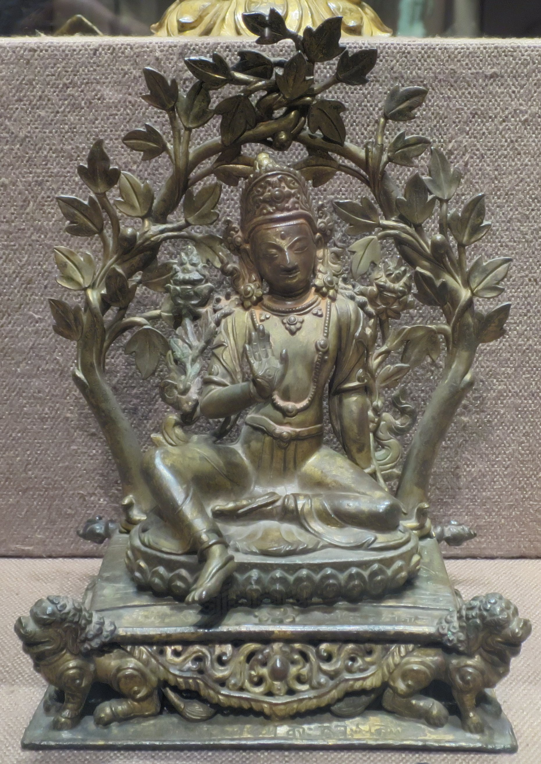 Bodhisattva Vajrapani from Nepal, 1731, gilt bronze with traces of pigment, Norton Simon Museum